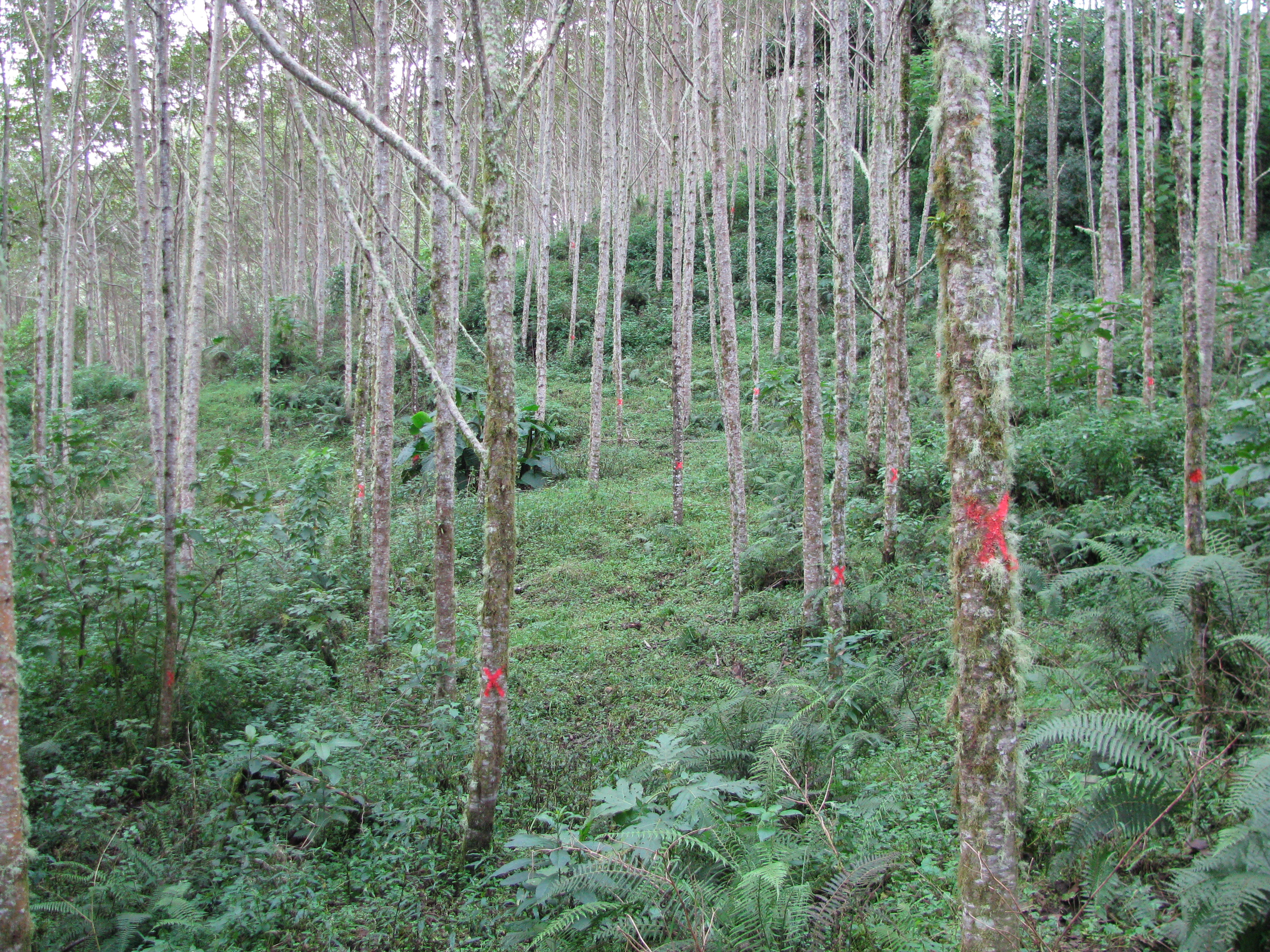 Alnus acuminata plantation in Costa Rica